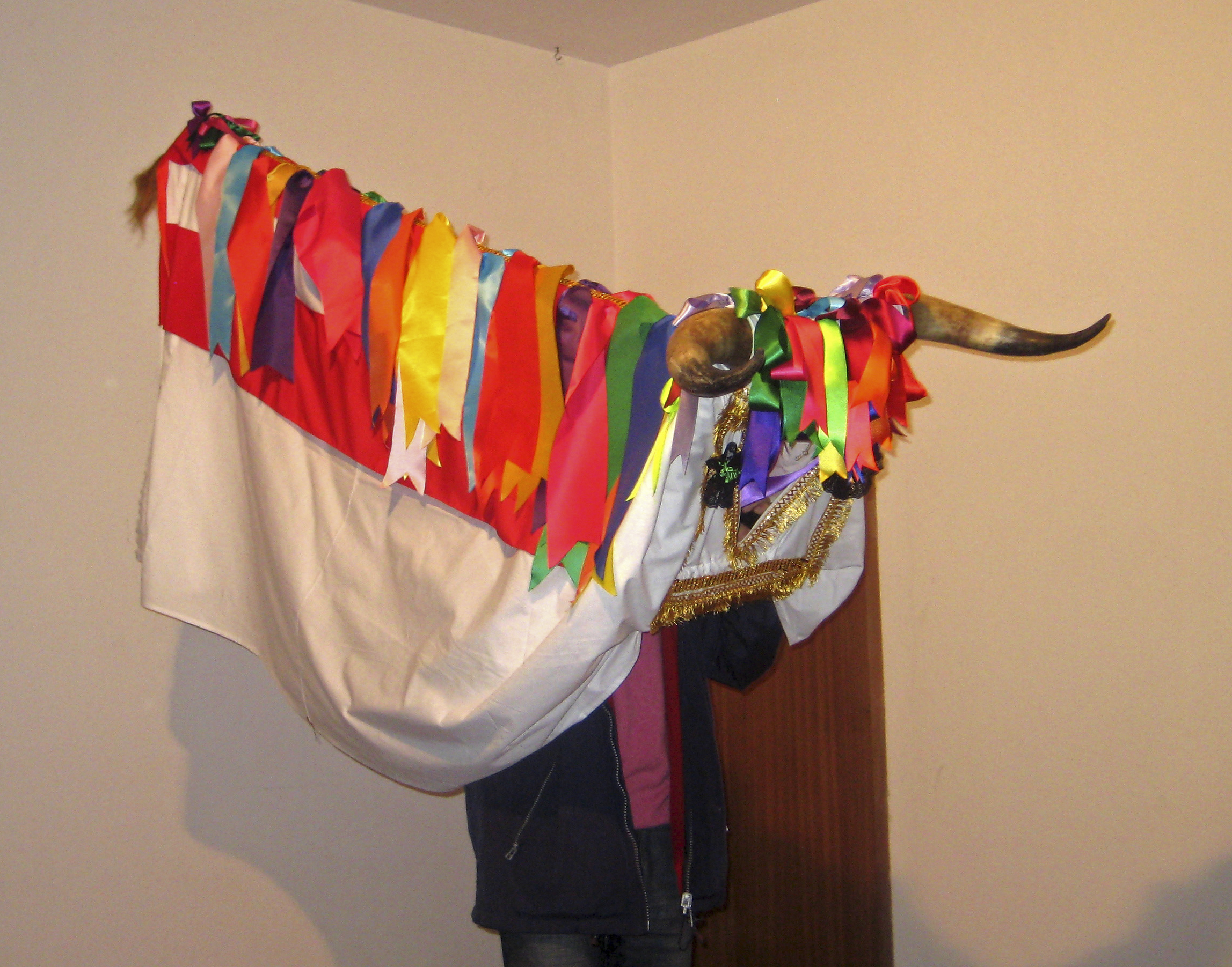 The Carnival Heifer